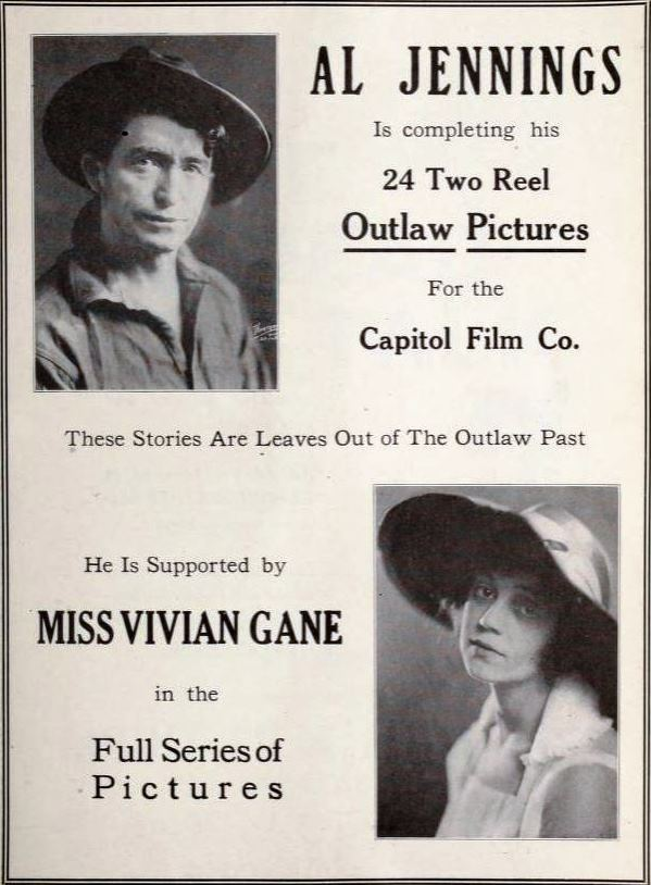 Advertisement for films starring Al Jennings and supported by Vivian Gane, on page 35 of the January 3, 1920 Exhibitors Herald. They mad three western short films together, The Tryout (1919), A Fugitive's Life (1919), and The Frame-Up (1919).